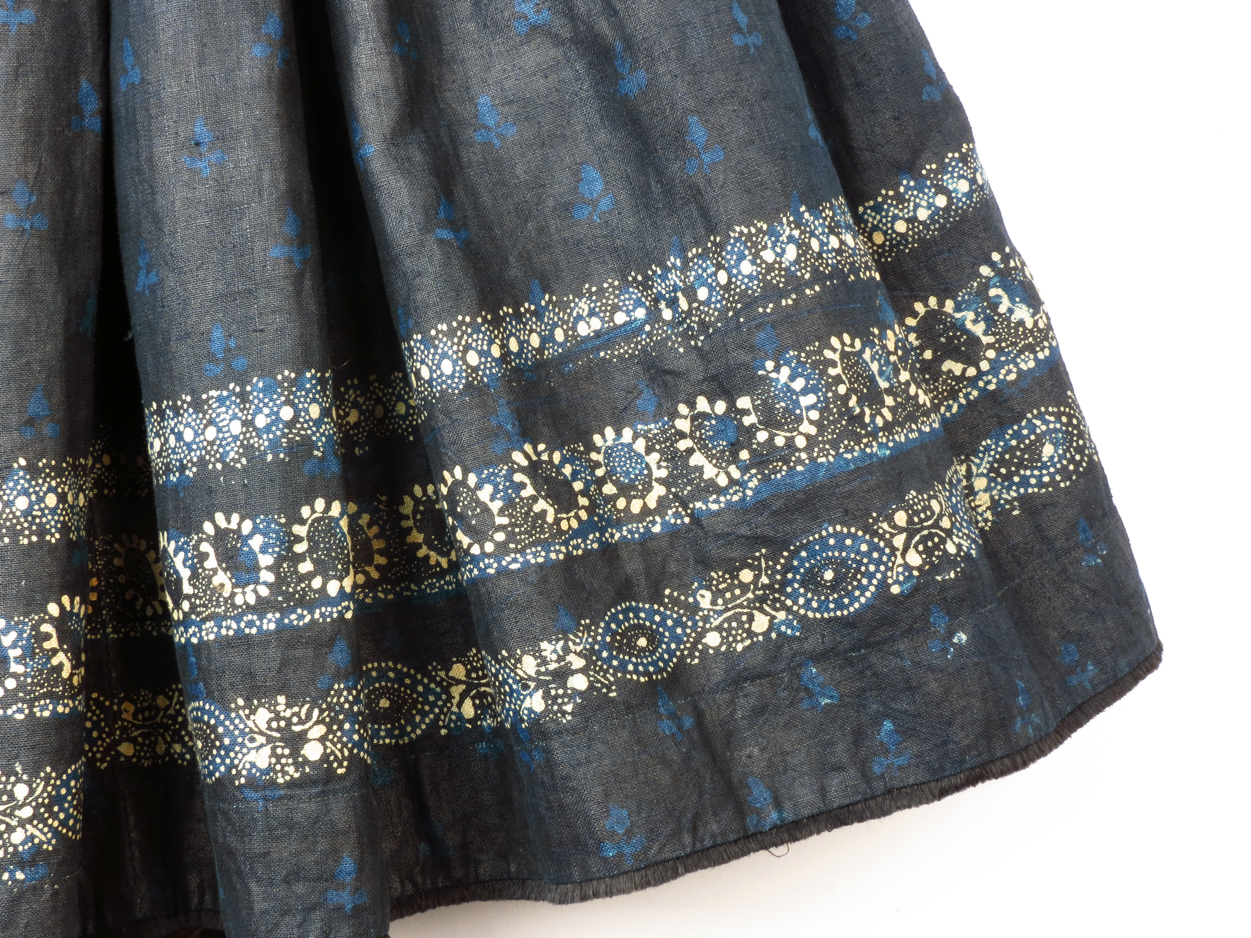 Dark blue skirt with floral pattern (detail). Fabric: linen canvas, indigo dyed and printed. Locality: Nowe Bystre. Ethnographic region: Podhale. The collection of The State Ethnographic Museum in Warsaw. PME 1947